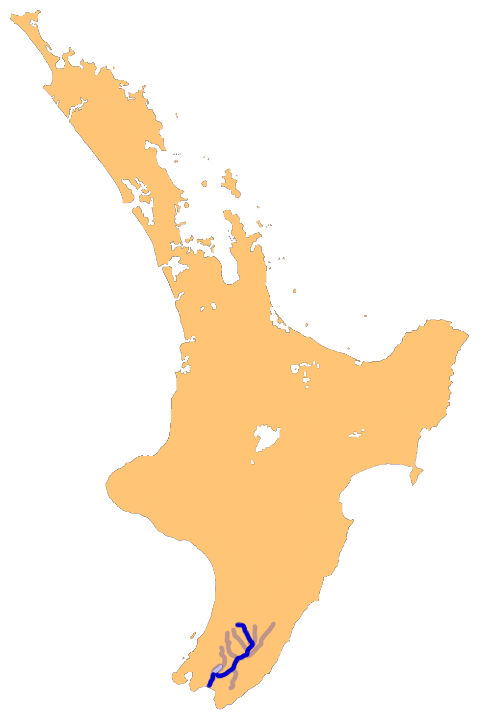 Location map of the Ruamahanga River, New Zealand